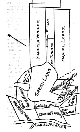 Hand drawn map of property owners in the vicinity of Green Lake in 1917. Labeled as "sketch from the official map of Calhoun county".